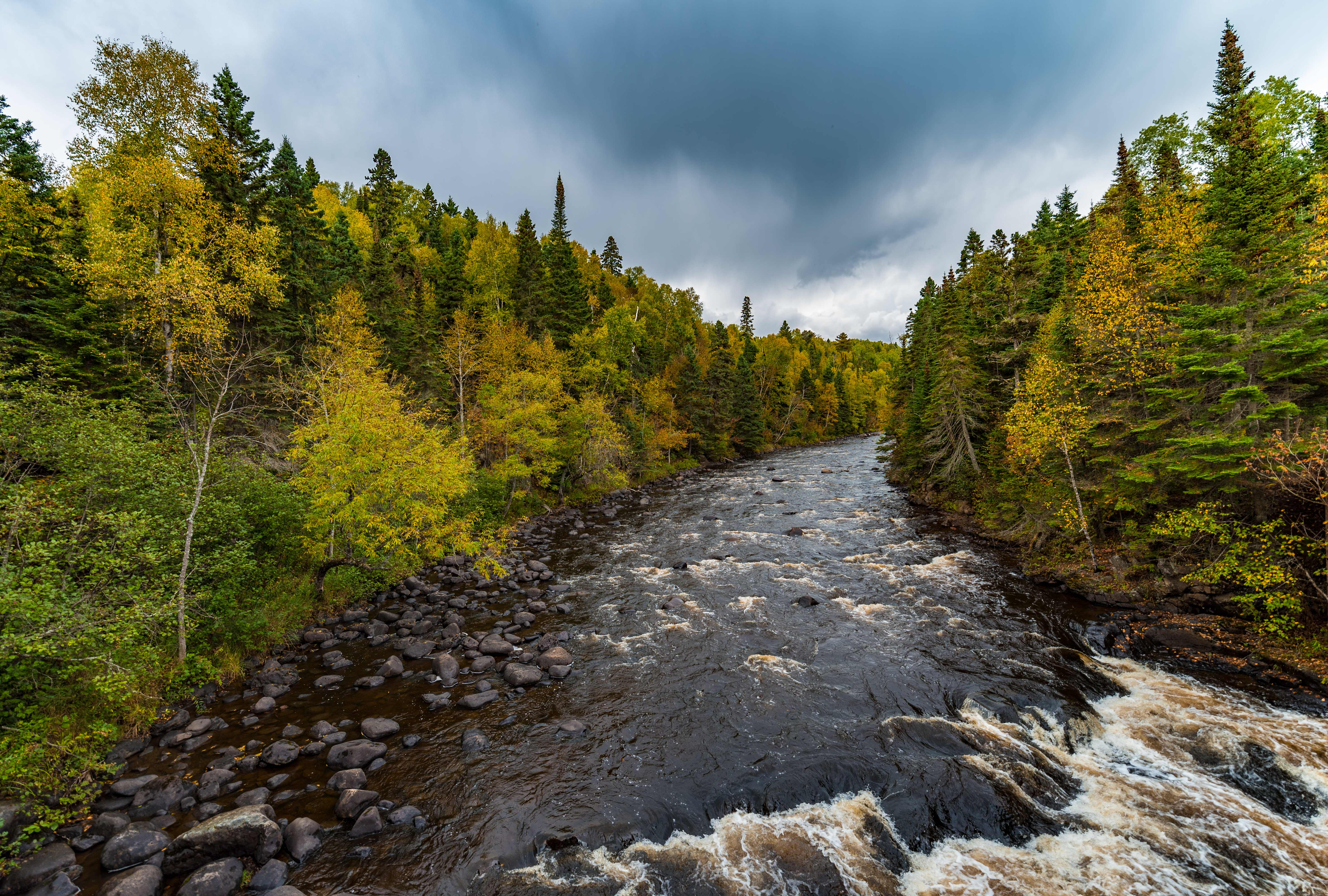 Fall colors on the Brule River at Judge C.R. Magney State Park on Minnesota's North Shore.